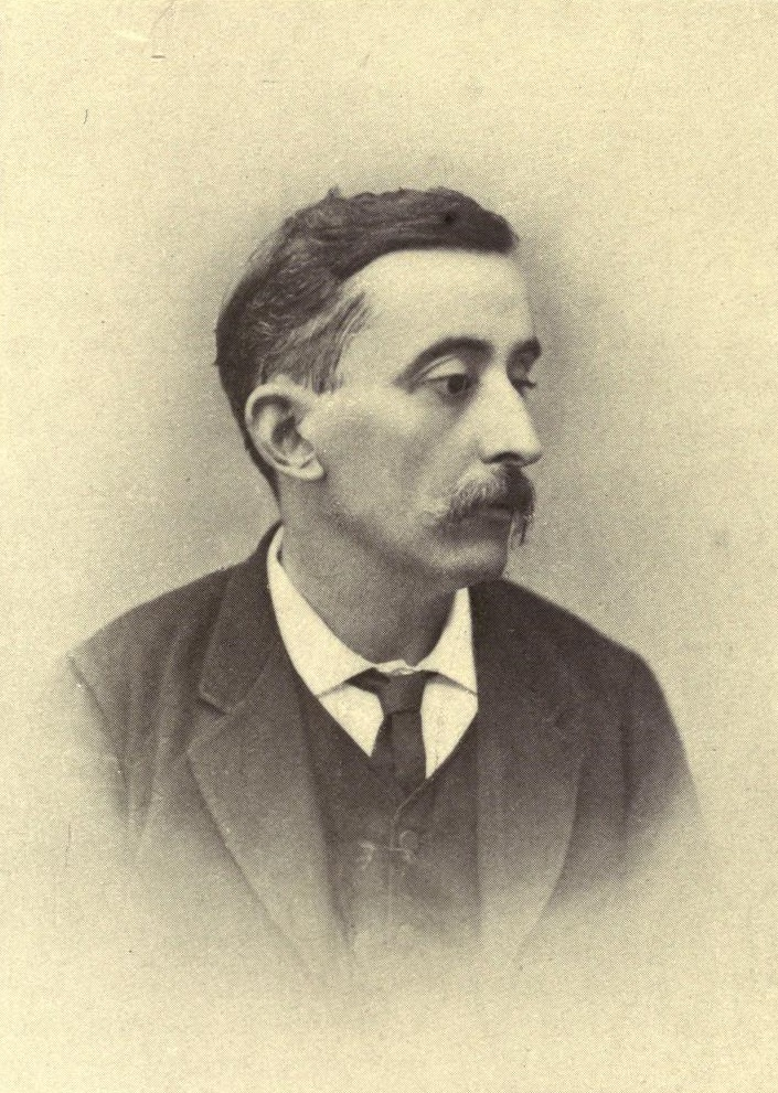 From a photograph taken at Martinique, August 24, 1888